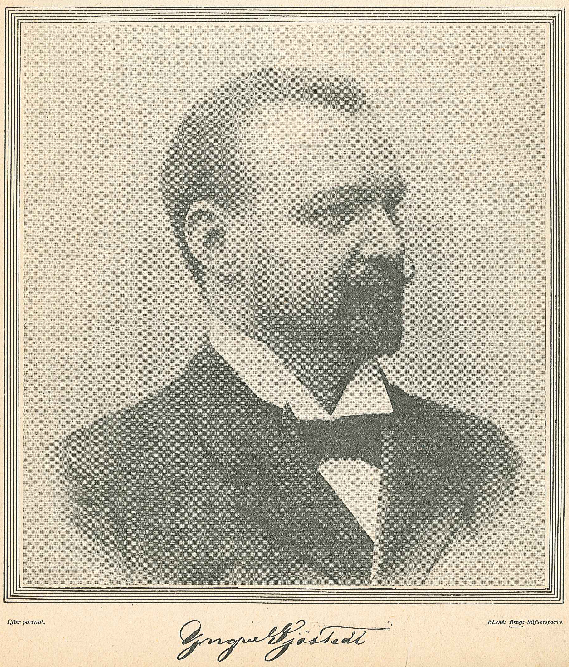 Yngve Sjöstedt (1866-1948), Swedish professor of zoology at Uppsala university.